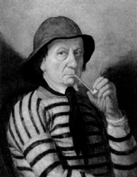 Saunders Mucklebackit, the Old Fisherman, by Henry Stacy Marks (1829-1898)